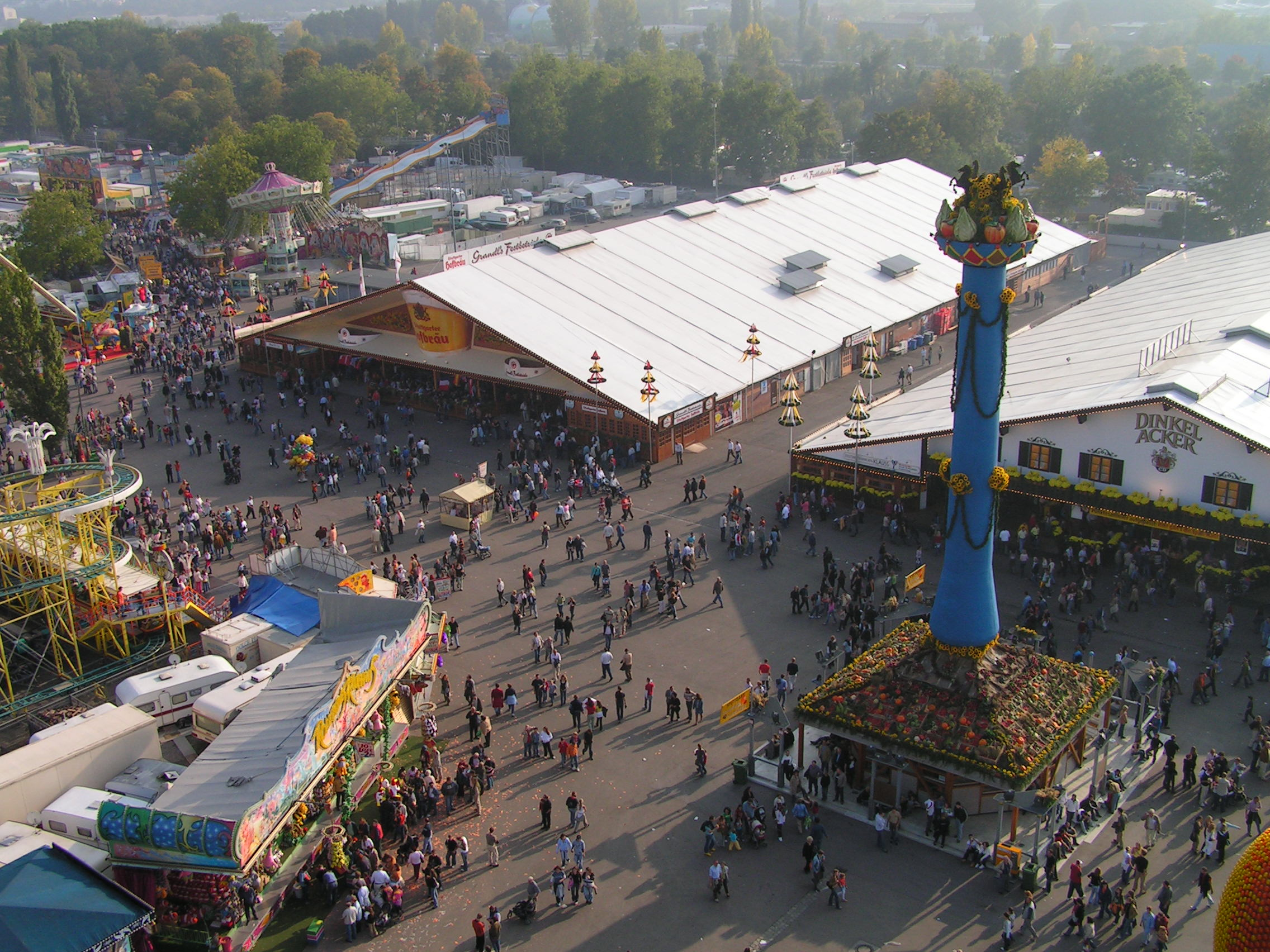 Stuttgart Wasen Festival, fruit column on the right